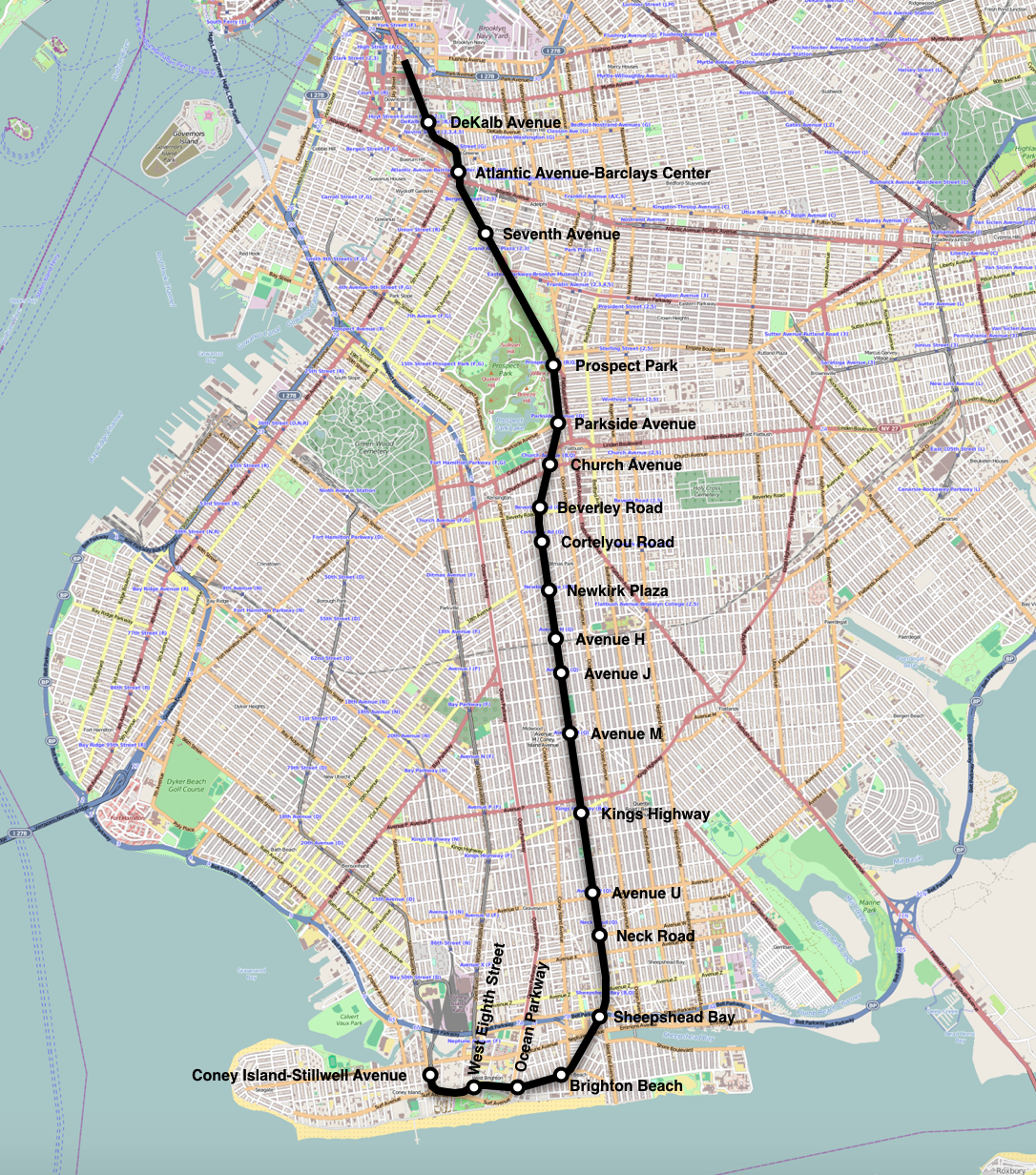 BMT Brighton Line map